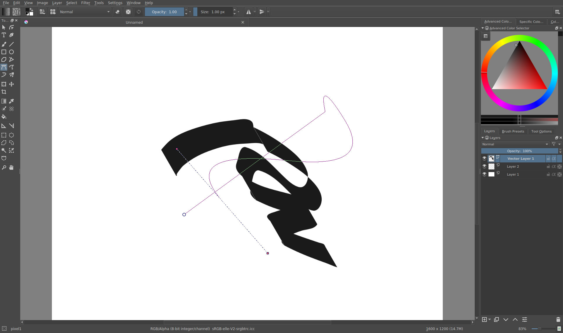 Krita's vector tool